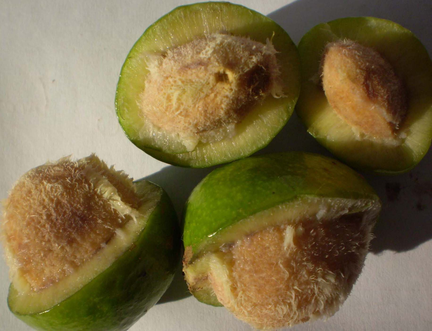 Fruits of Irvingia malayanaTiếng Việt: Mặt cắt của quả Kơ nia